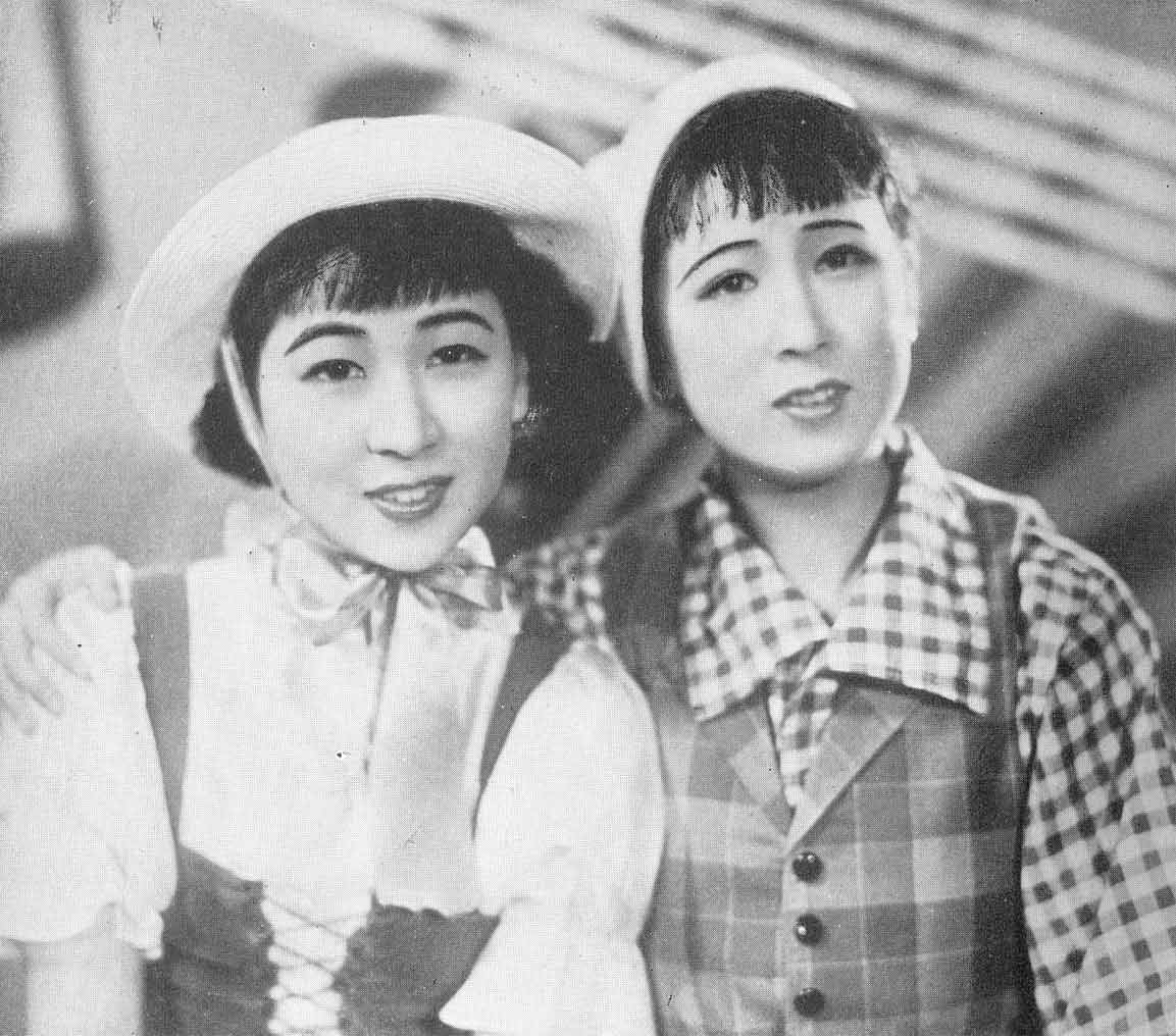 Hanako Tsukino as Hansel, Haruyo Chichibu as Gretel